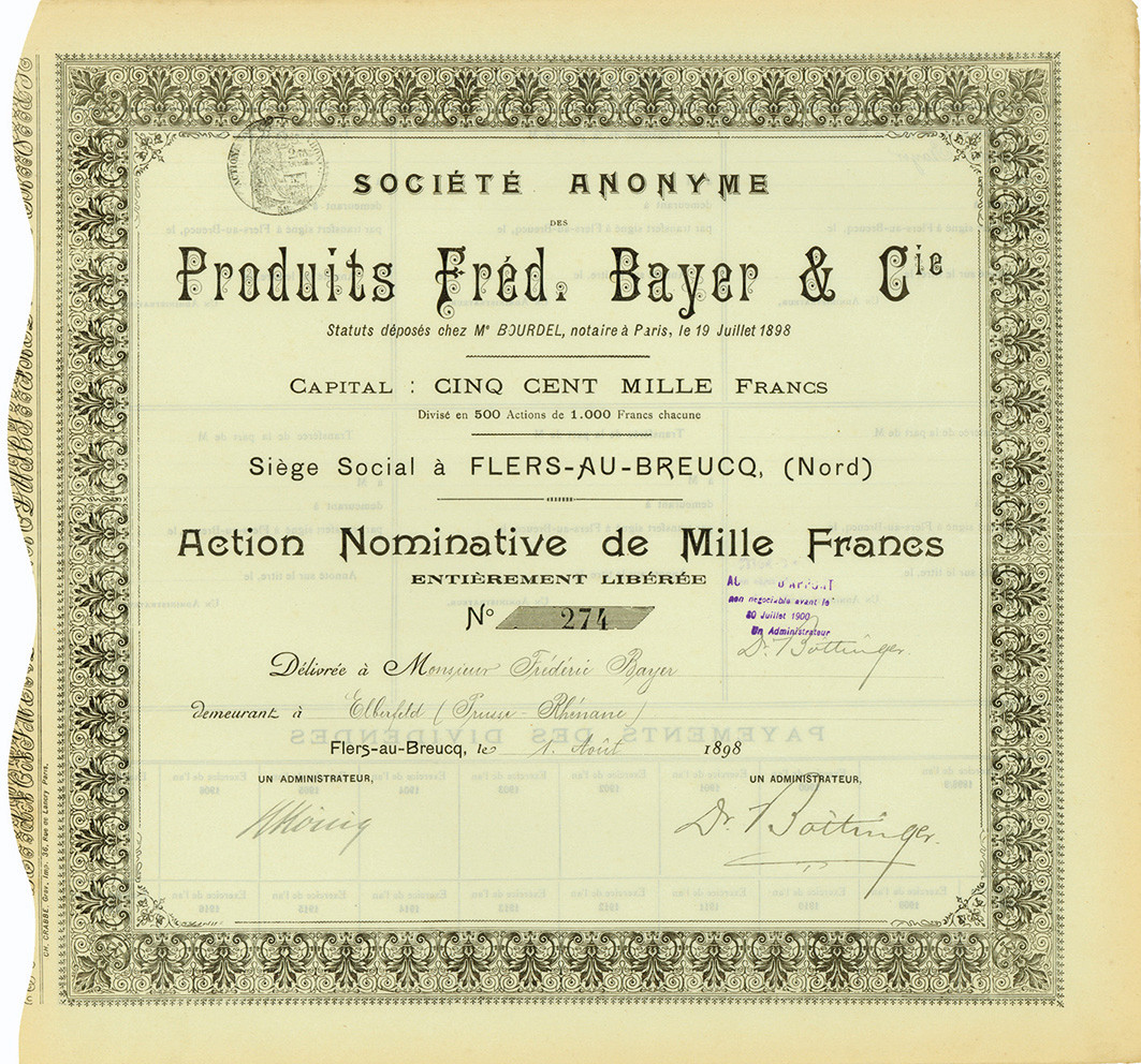 Share of the S.A. des Produits Fréd. Bayer & Cie., issued 1. August 1898